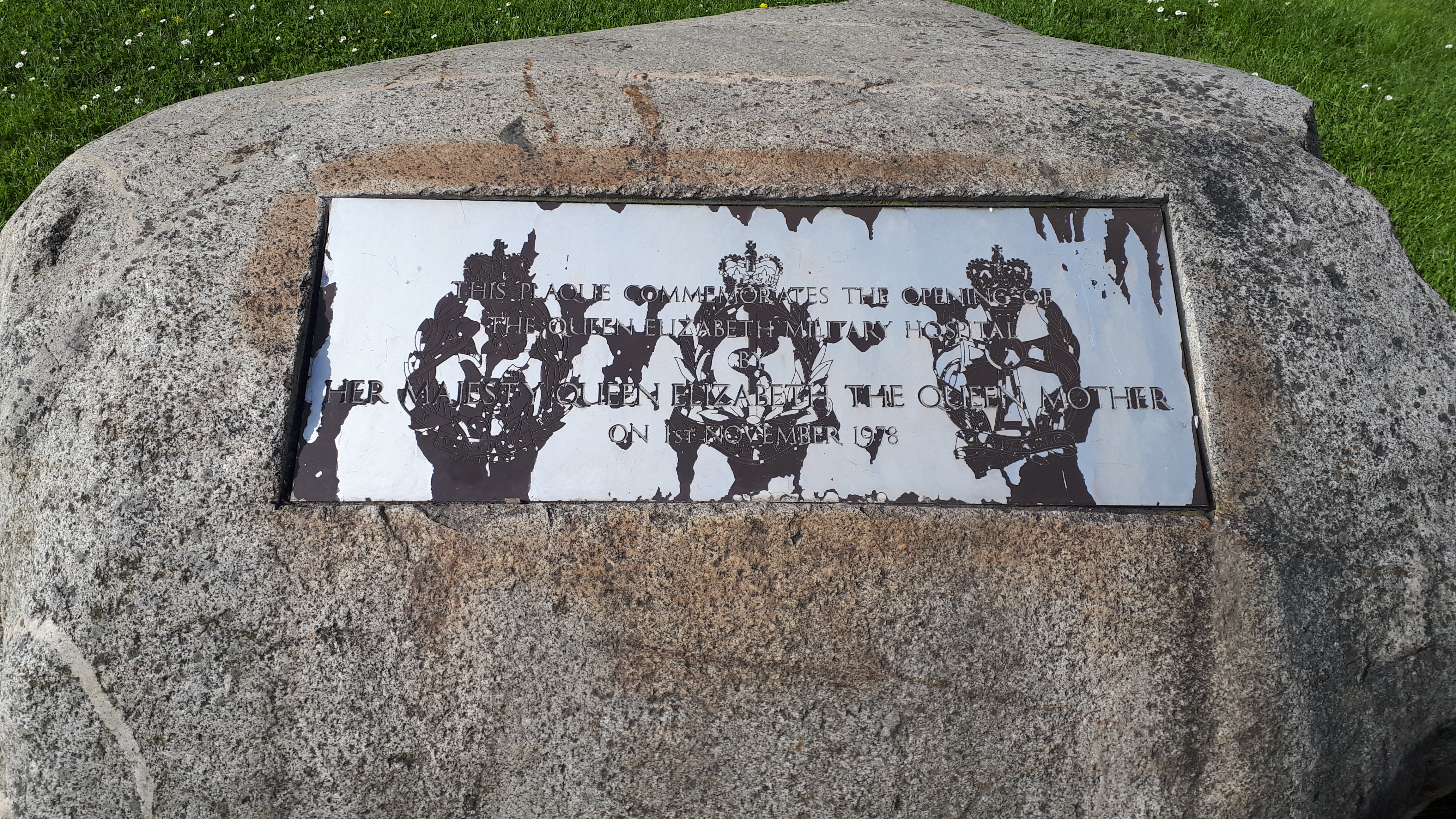 Plaque marking opening of Queen Elizabeth Military Hospital, mounted on boulder near main entrance of Queen Elizabeth Hospital, Woolwich